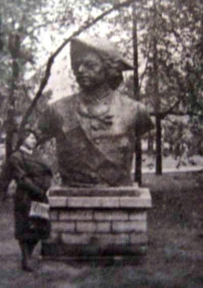 Bronze equestrian monument of Peter the Great. Last part. Kadriorg. Tallinn